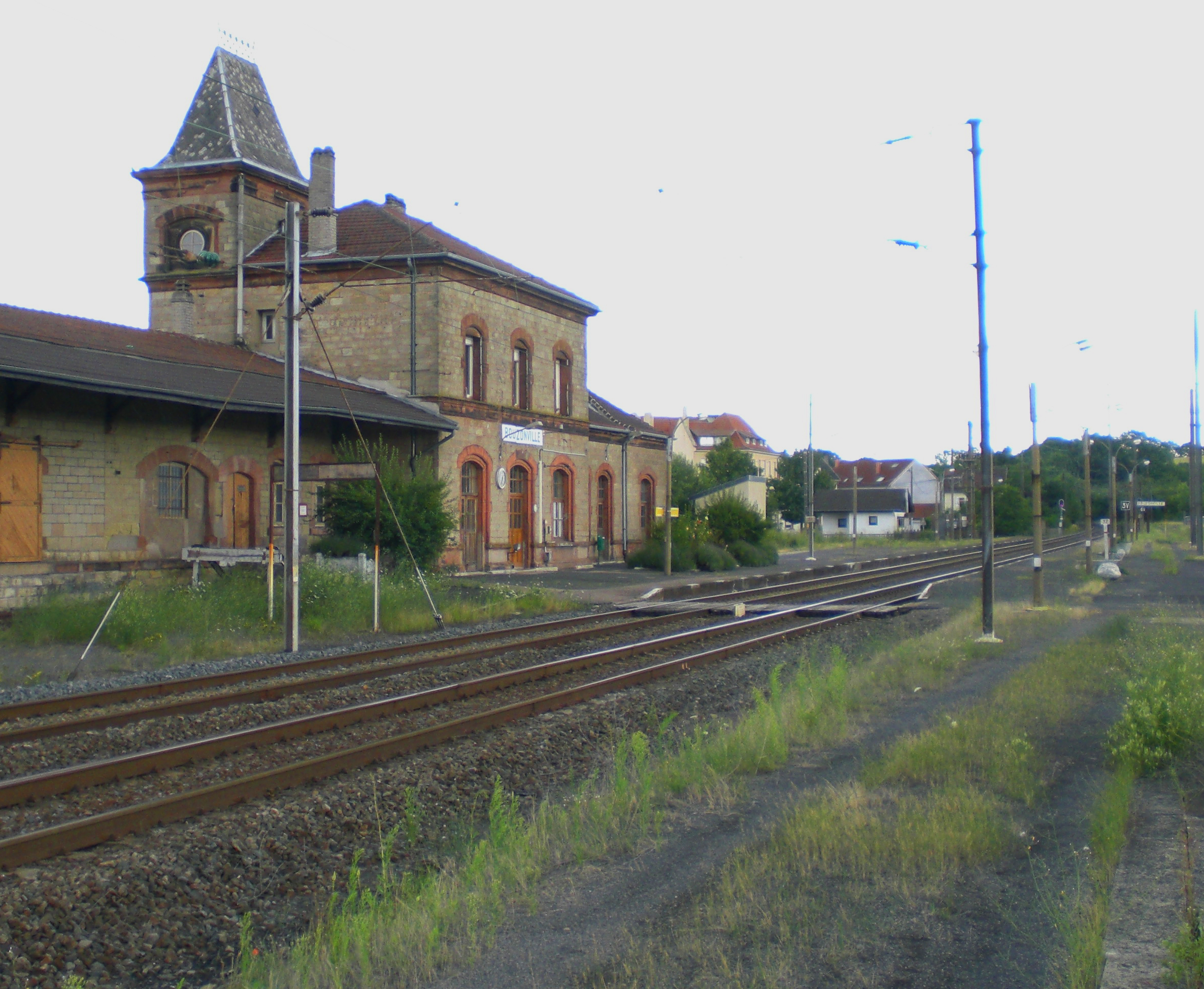 Railway Station, track-side, at Bouzonville, France